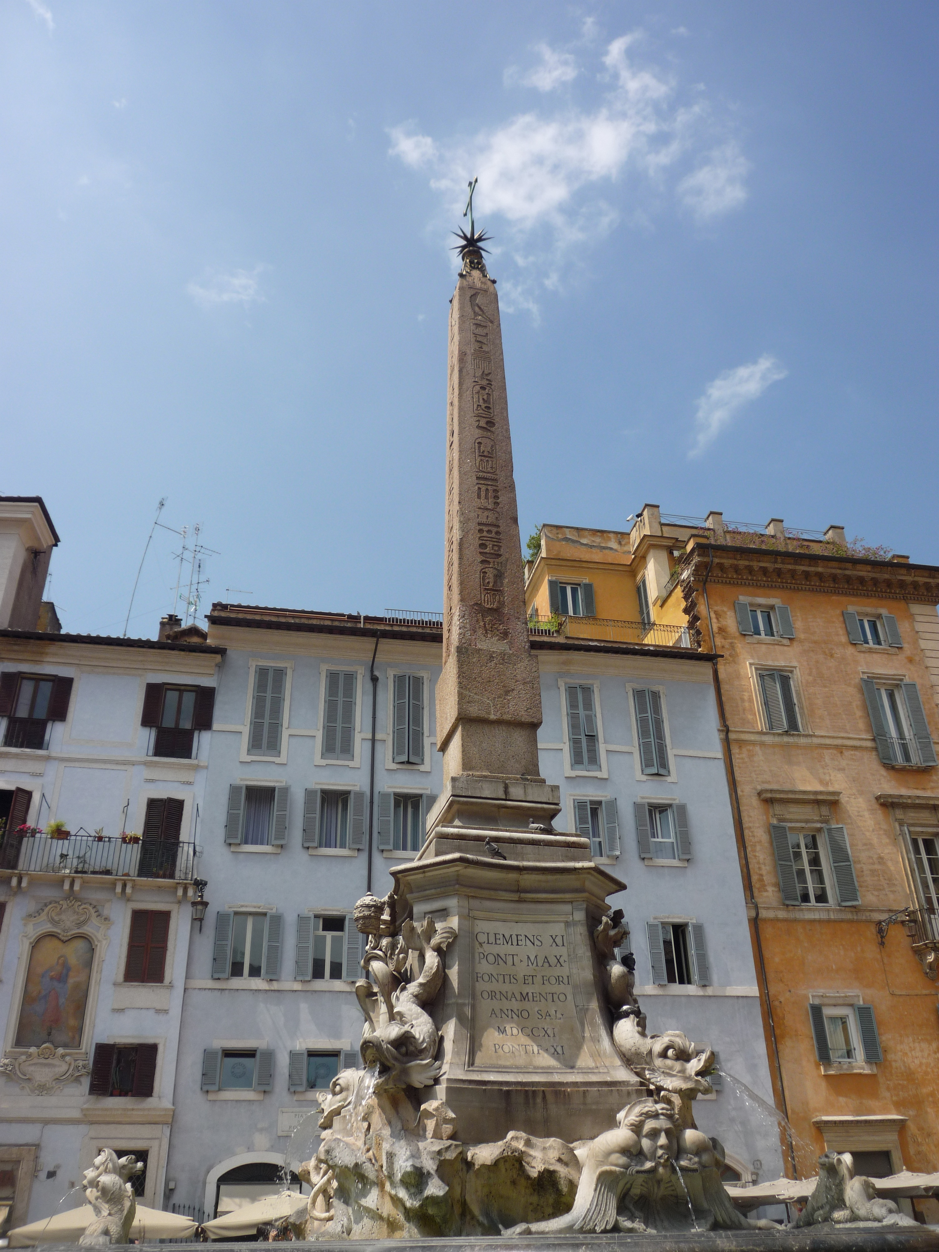 Rome - Pantheon, obelisk at Piazza della Rotonda